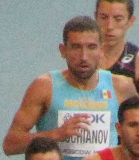 Ion Luchianov in action during Men's 3000 metres steeplechase final at the 2013 World Championships in Athletics